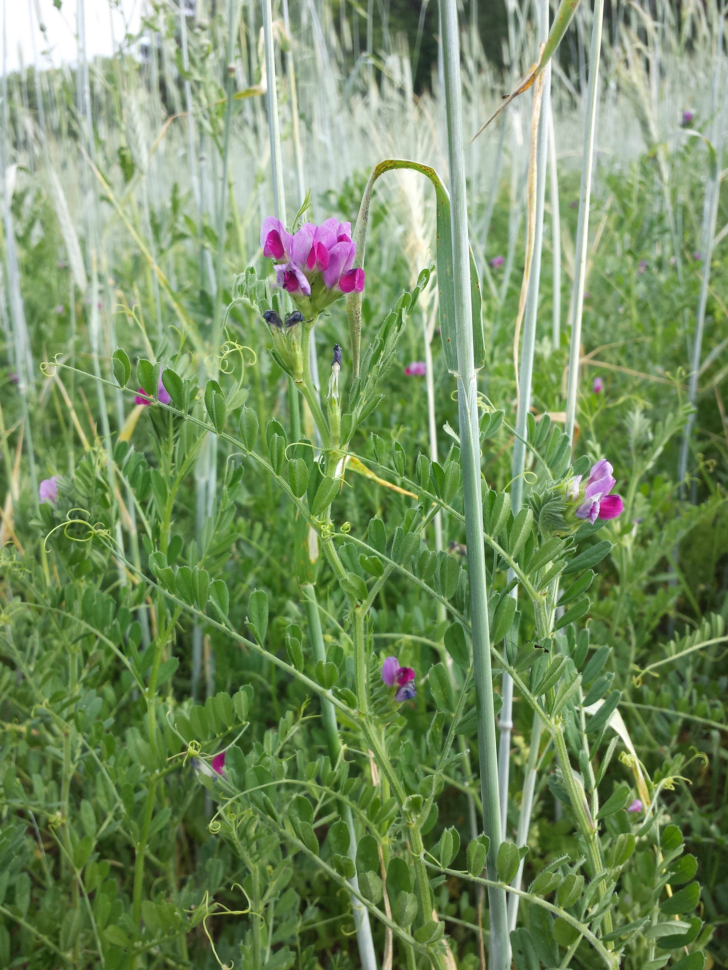 Habitus Taxonym: Vicia sativa ss Fischer et al. EfÖLS 2008 ISBN 978-3-85474-187-9 Location: Altenberg north of Nursch, district Korneuburg, Lower Austria - ca. 350 m a.s.l. Habitat: grainfield (cultivated)